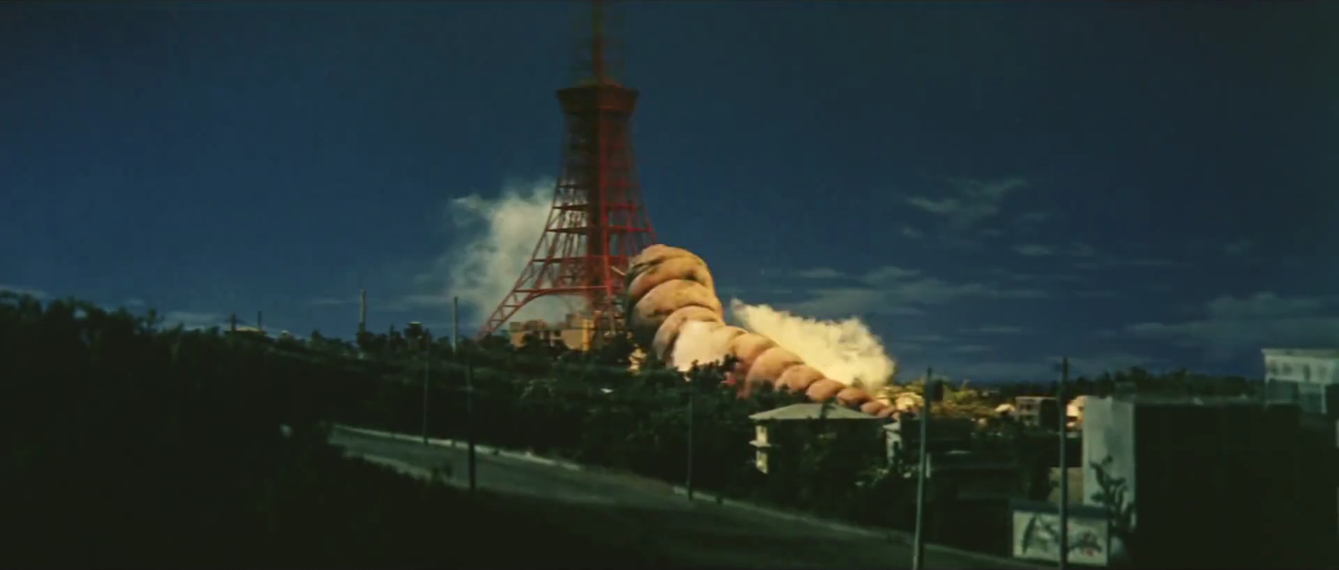 Scene from Mothra.